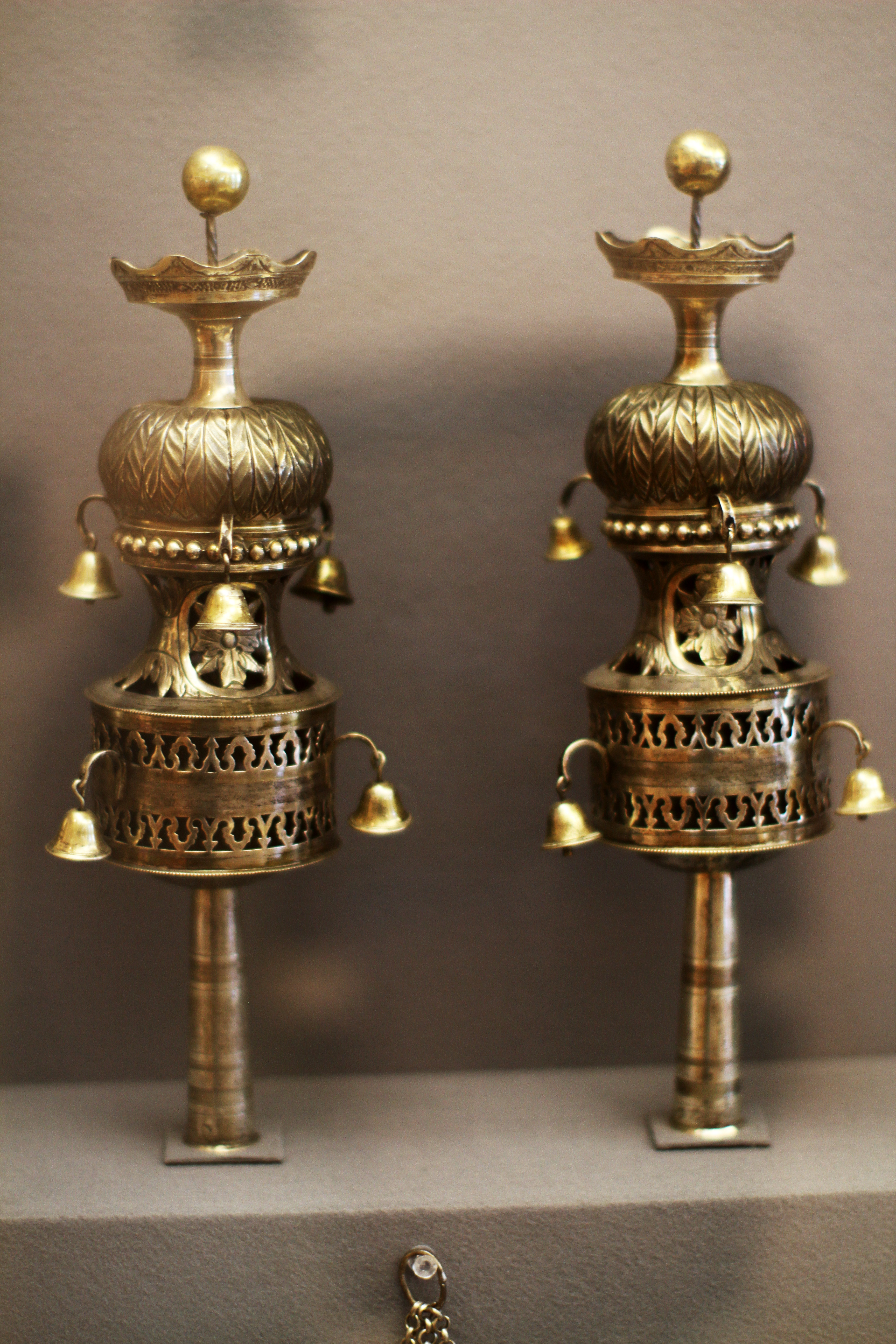 Torah Finials (Rimonim) Jewish ceremonial objects in the permanent exhibition in Kölnisches Stadtmuseum, in Cologne Germany